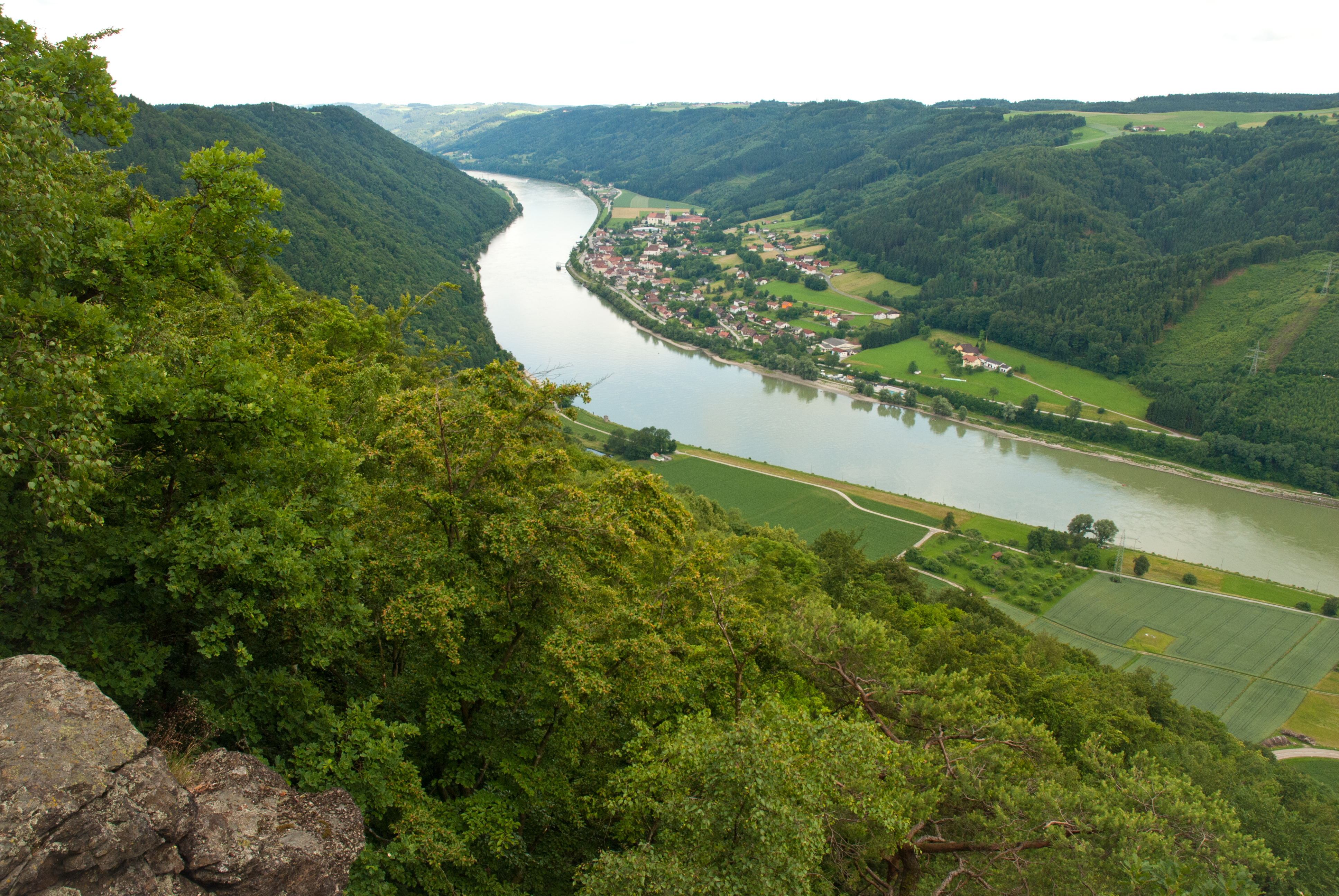 Slopes of the danube valley near Passau